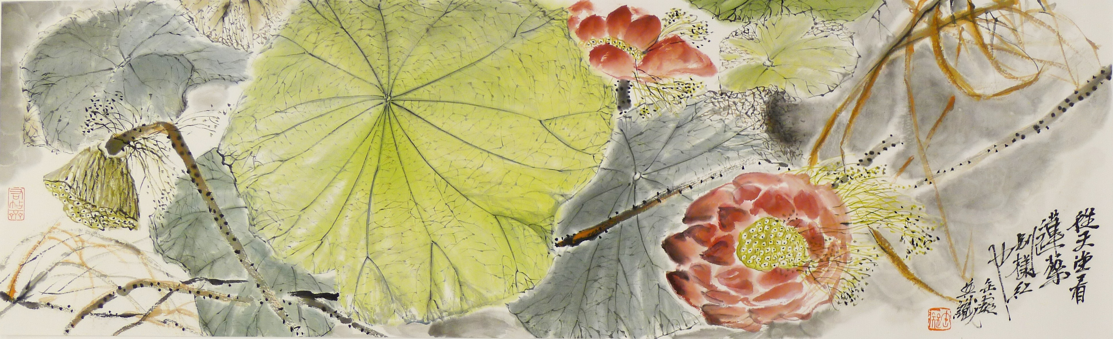 Elegance of the Lotus Looking from Heaven, by Shaoqiang Chen, Chinese Ink and Watercolor on Rice Paper